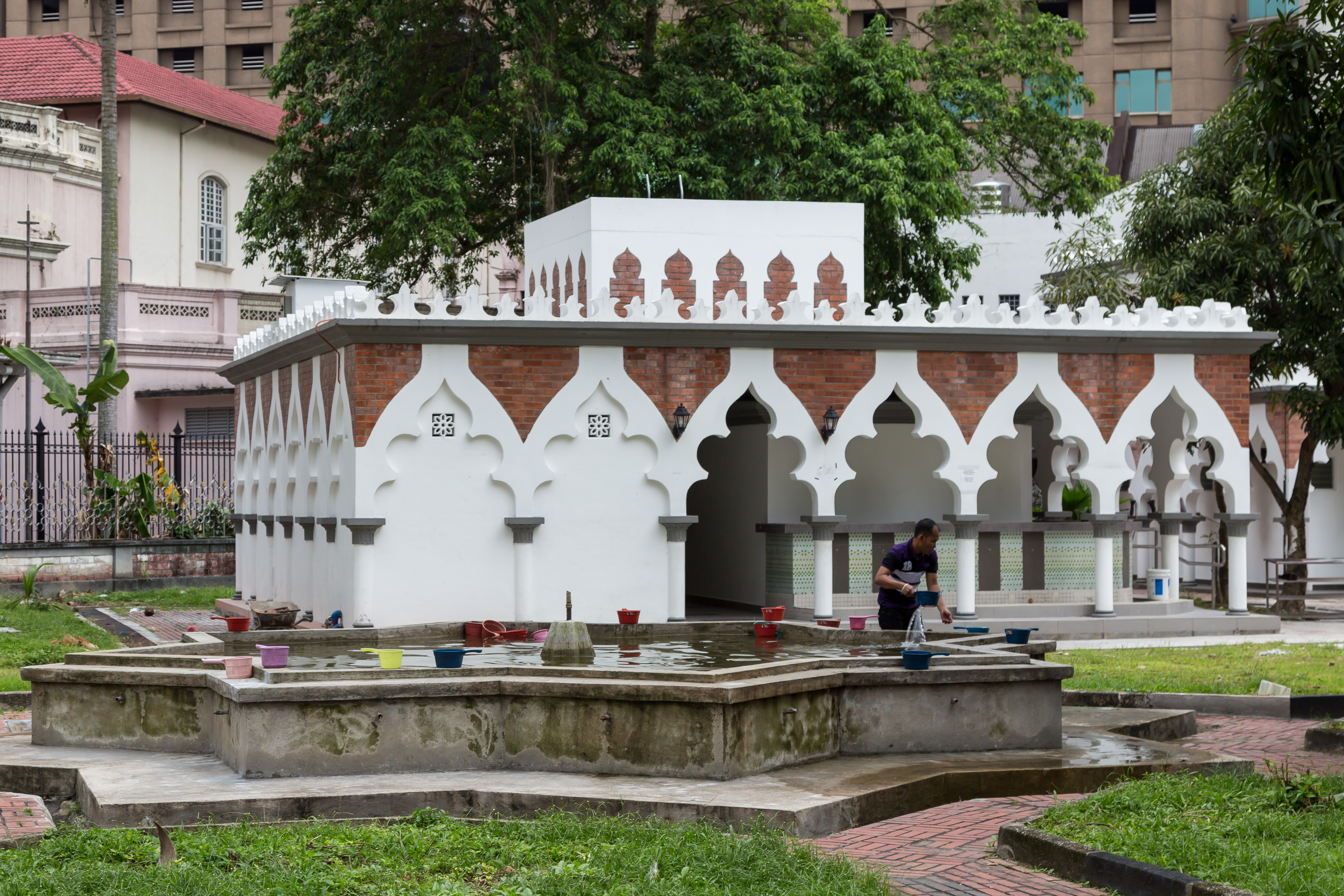 Kuala Lumpur, Malaysia: Ablution basin (for men) in Masjid Jamek Kuala Lumpur